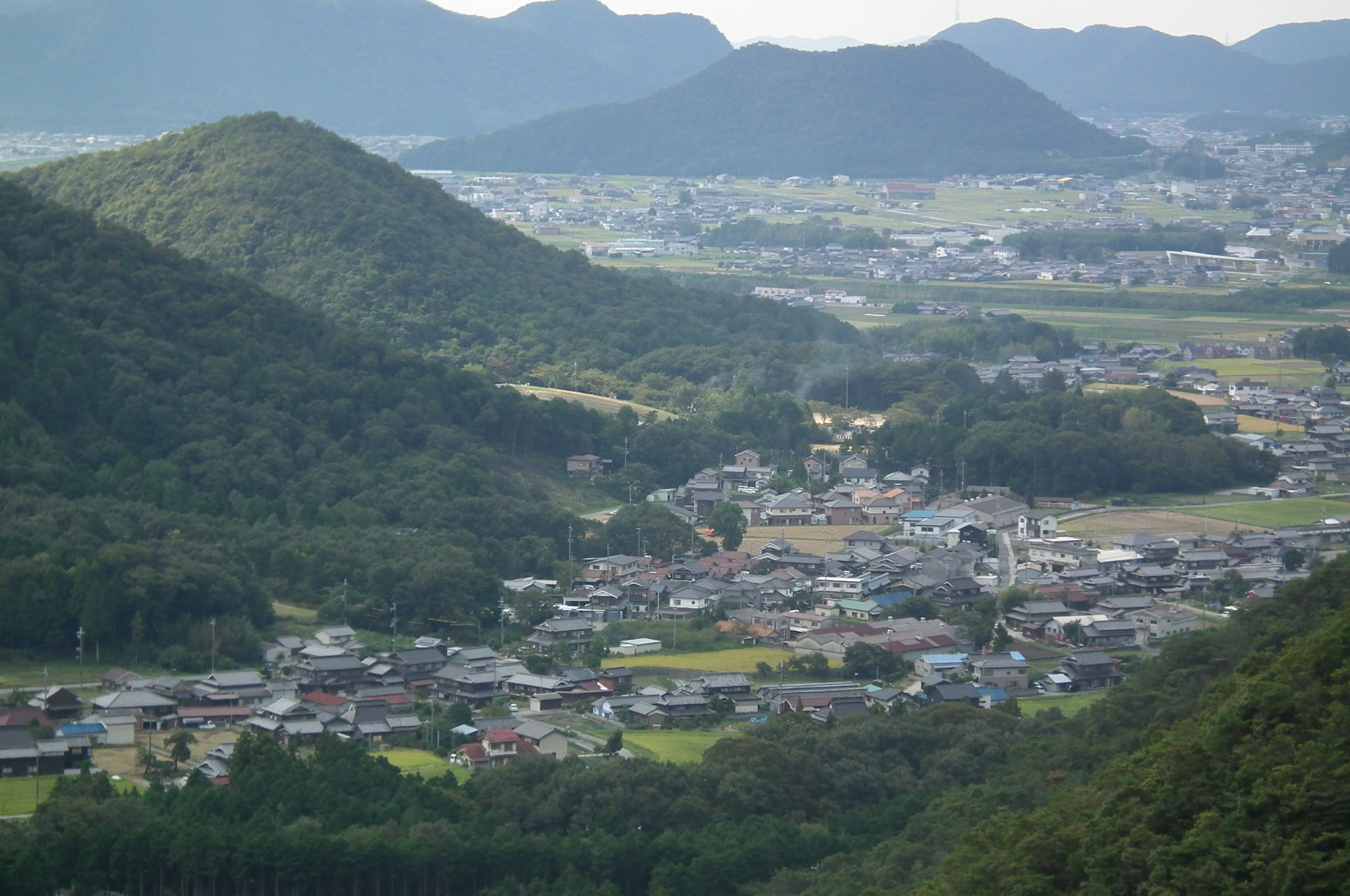 View from the top of Mount Haku (Haku-san) in Nishiwaki City, Hyogo Prefecture, Japan